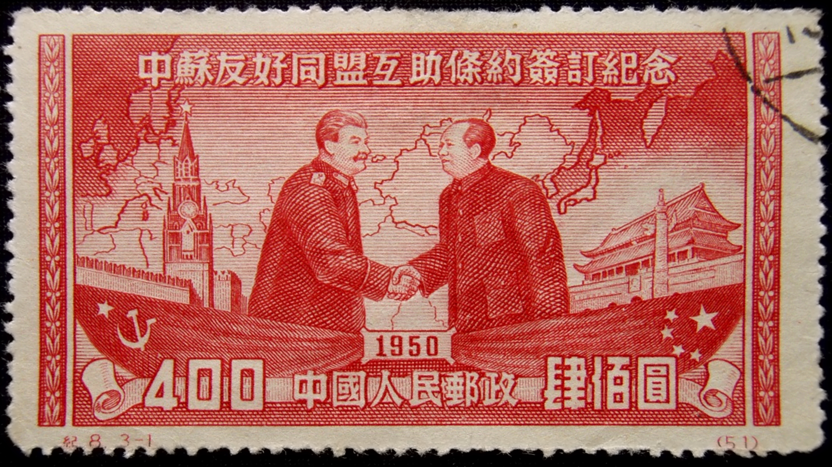 Chinese Stamp, 1950. Joseph Stalin and Mao Zedong are shaking hands.